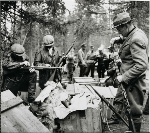 One of 300 images declassified by the Finnish government in 2006 showing the Winter War and Continuation War against the Soviet Union from 1939-45.